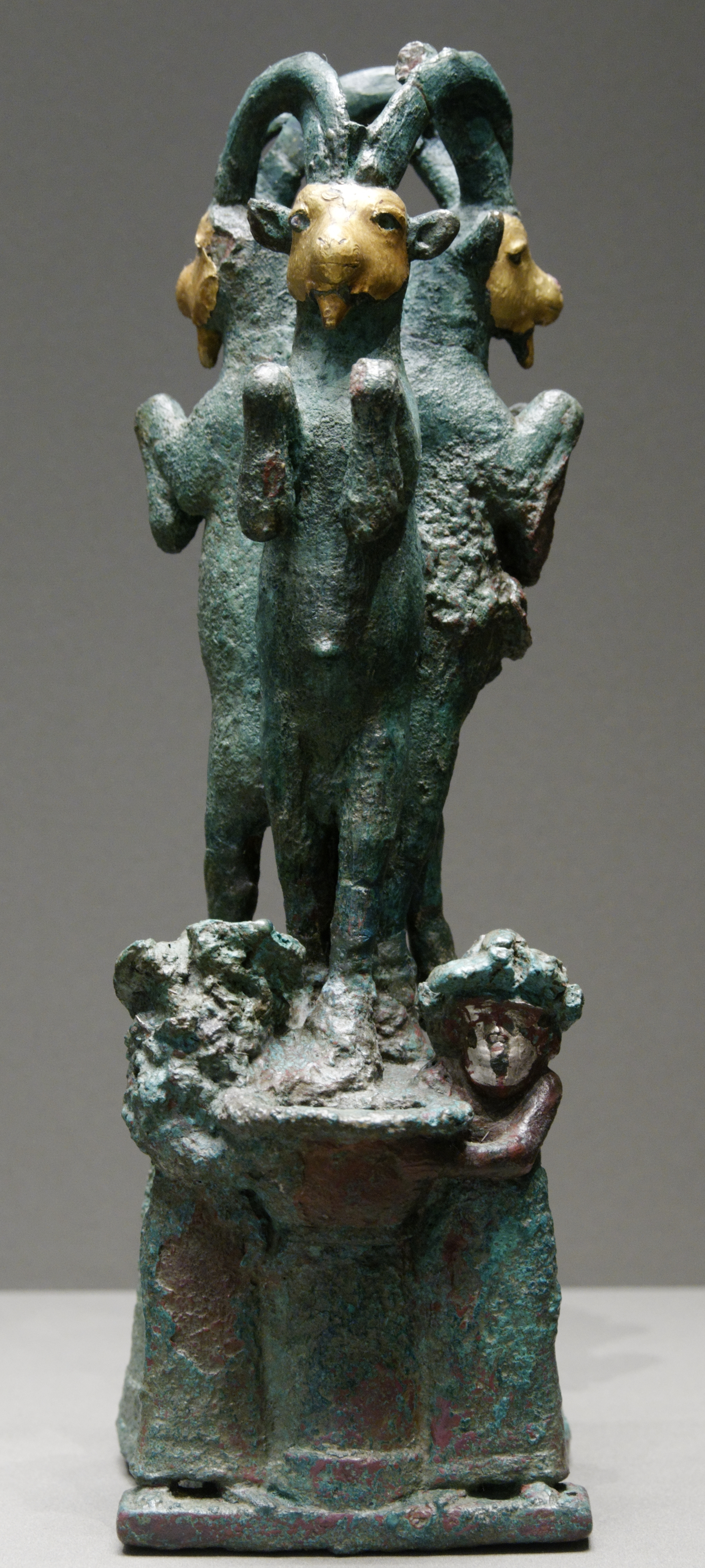 Cup stand with three ibexes. Bronze, gold and silver, early 2nd millennium BC. From Larsa.